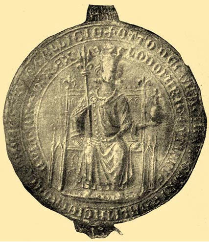 Otto III of Bavaria